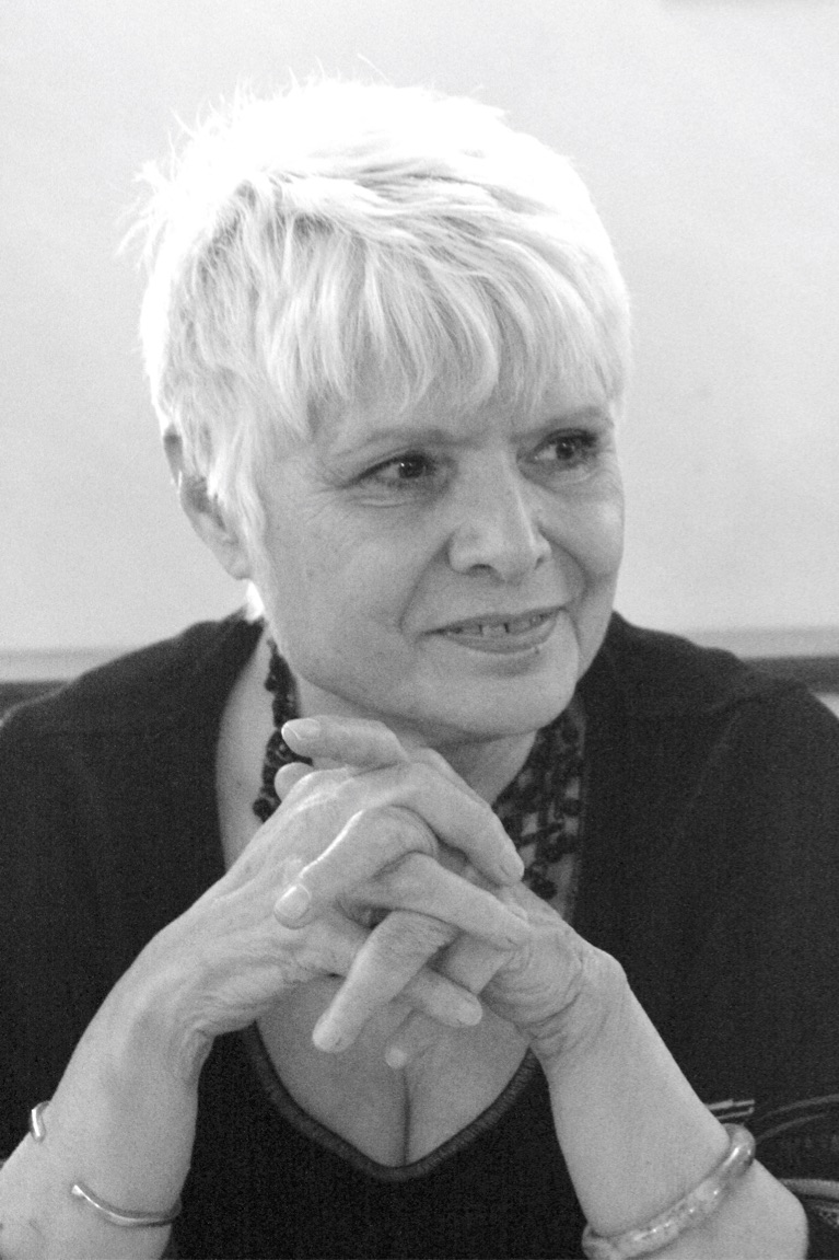 Author's pic